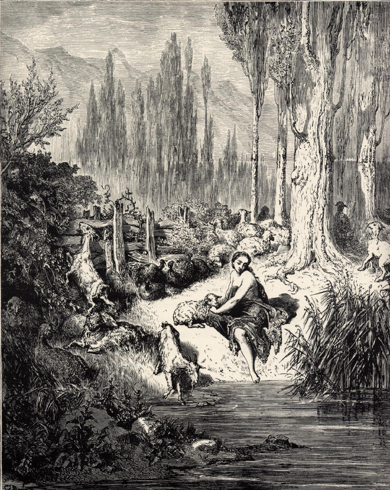 Illustration for Charles Perrault's Peau d'ane. Gustave Doré's illustrations appear in an 1867 edition entitled Les Contes de Perrault. Fifth of six engravings